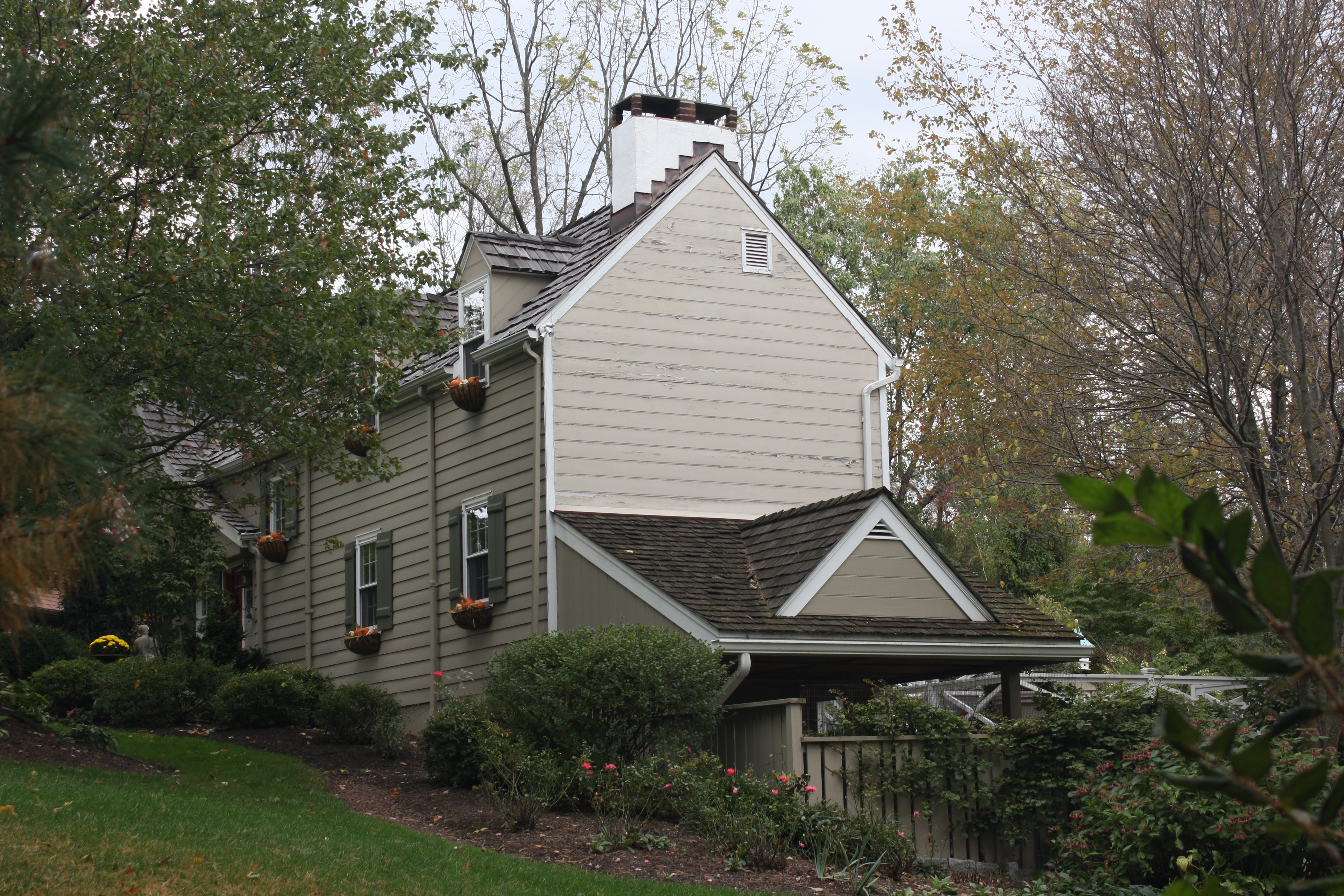 William Smith House (Wrightstown, Pennsylvania) also known as Brooks, is a historic home located at Wrightstown, Bucks County, Pennsylvania. The original section was built in 1686. Object location40° 15′ 56″ N, 74° 59′ 08″ W